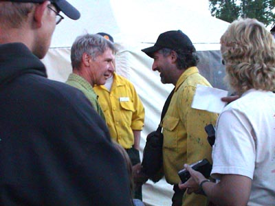 Harrison Ford (center left) thanks NOAA meteorologist Dave Lipson for his efforts to save homes during last month’s fierce wildfires near Jackson, Wyoming. Trainee meteorologist Mike Stavish was also on-site. Their critical fire weather forecasts helped spare every area home from flames.